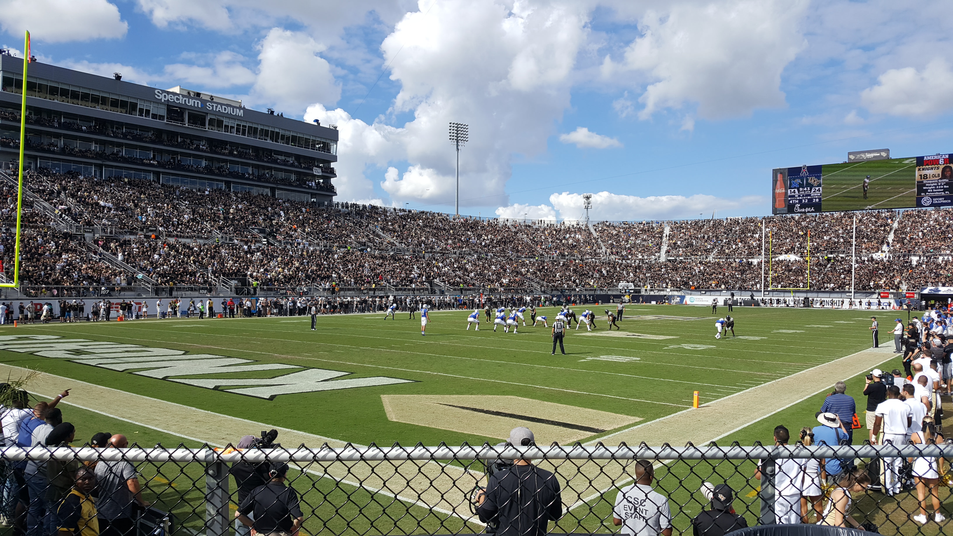 A picture of Spectrum Stadium during the 2nd Quarter of the 2017 American Athletic Conference football championship game between the Memphis Tigers and the UCF Knights.